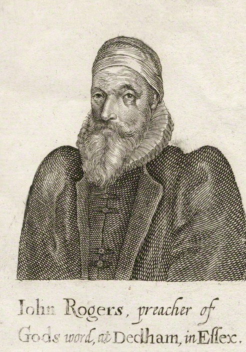 Portrait of John Rogers (1572-1636), minister at Dedham, Essex.